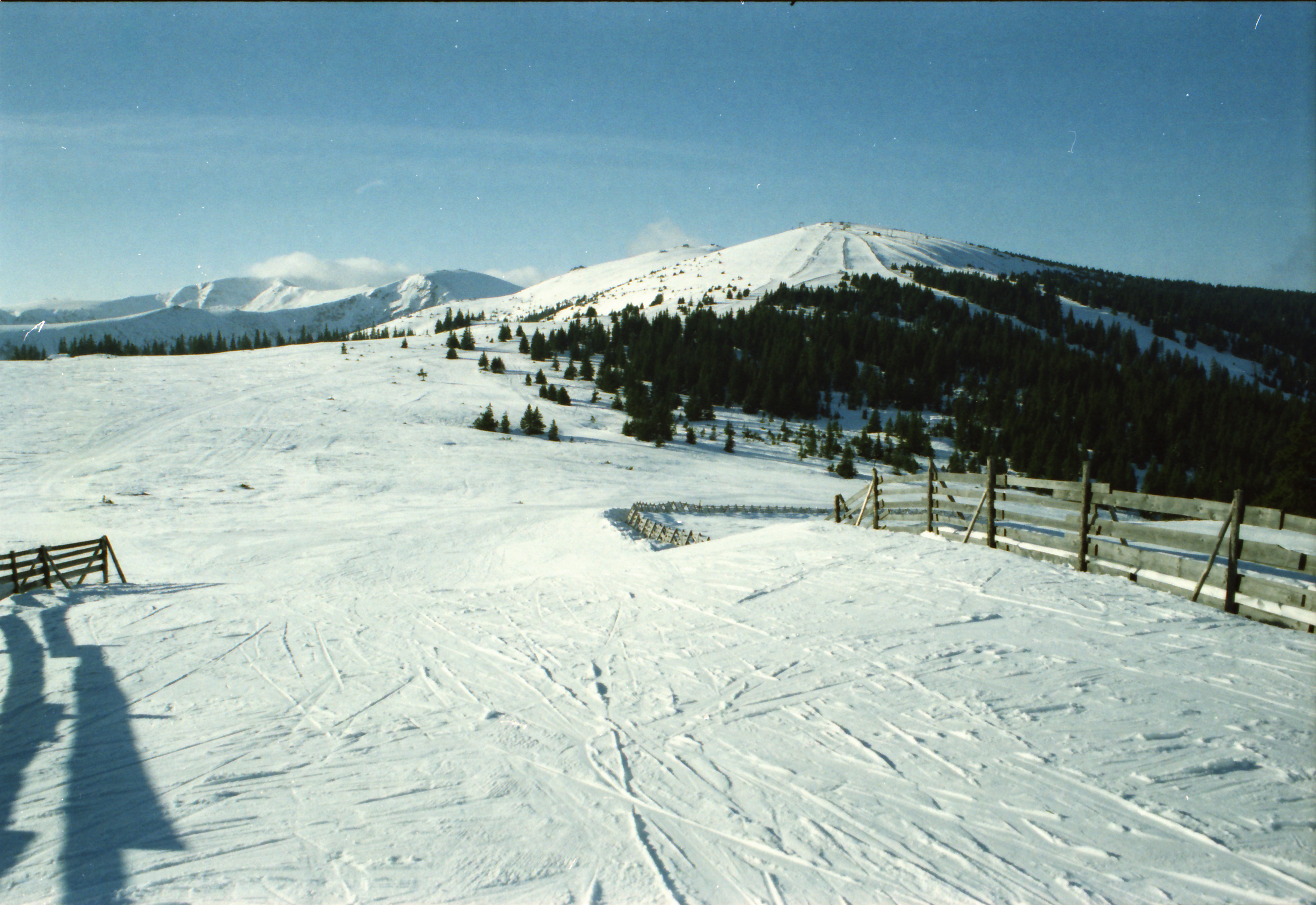 Weinebene Ski resorts in Carinthia